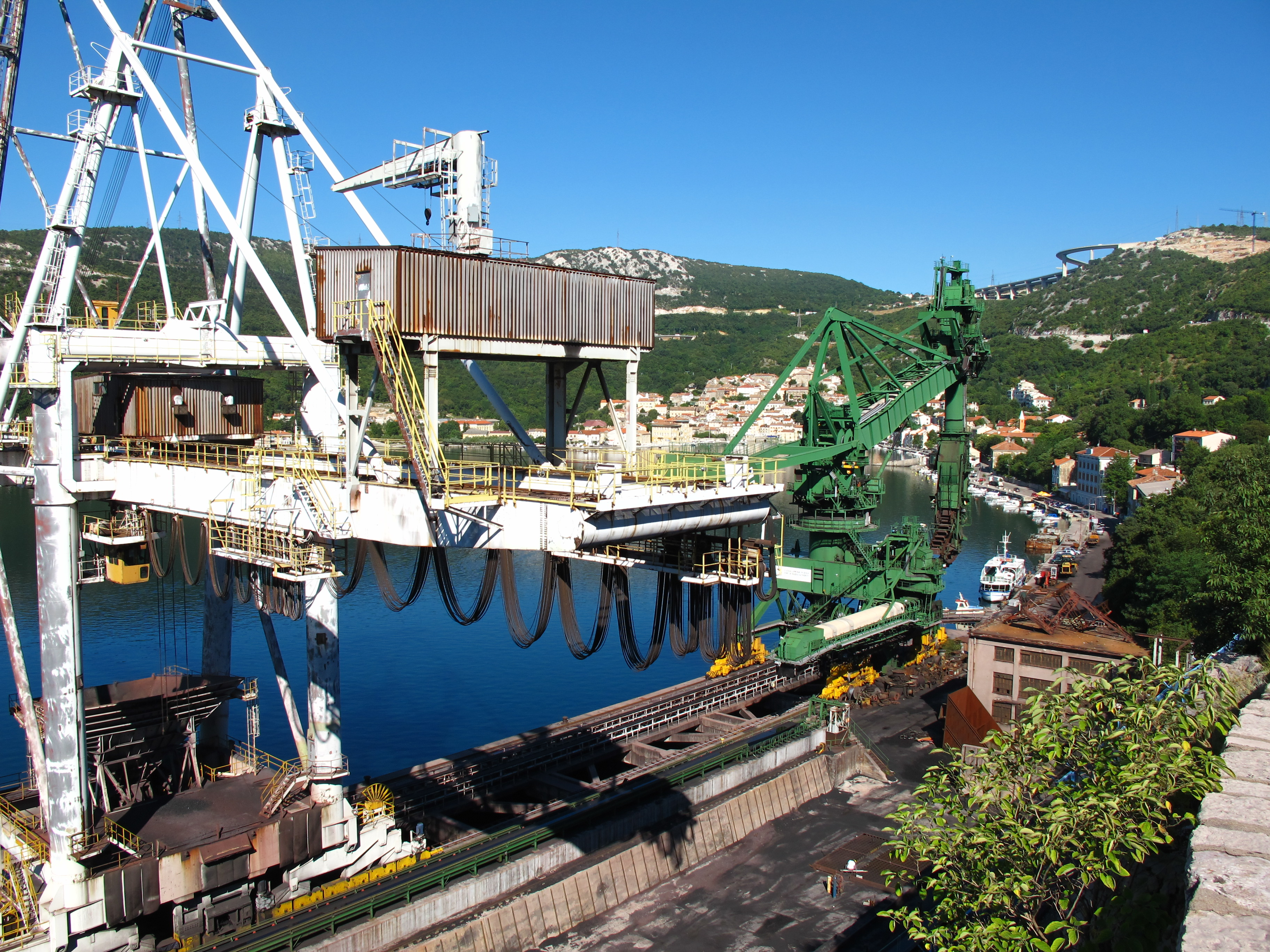 Barkar at Bay of Bakar / Croatia / Adriatic Sea. In the foreground, the port facility for loading of bulk cargo (coal). Since the closing of the coke Koksara Bakar 1995, the sales volume has fallen sharply.